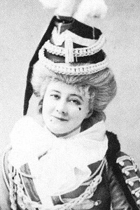 Florence St. John in The Grand Duchess of Gerolstein